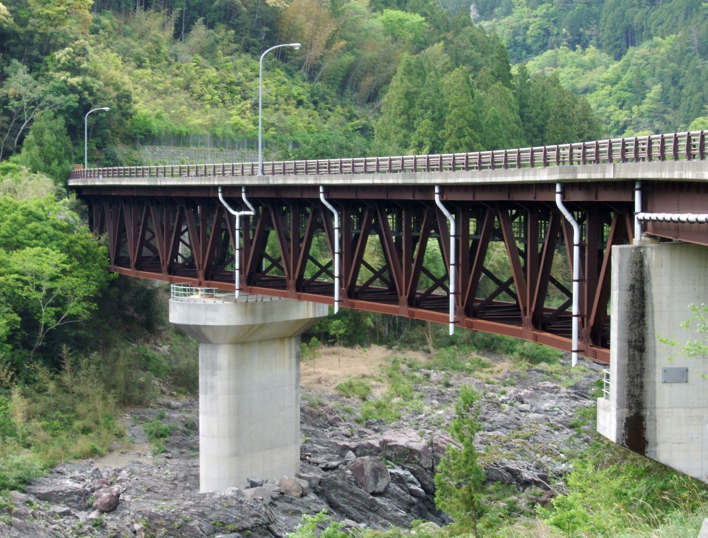 a road bridge made by weather resistant steel. "Happyaku-todoroki-bashi bridge" in Kochi prefecture. Japan National Route 439.